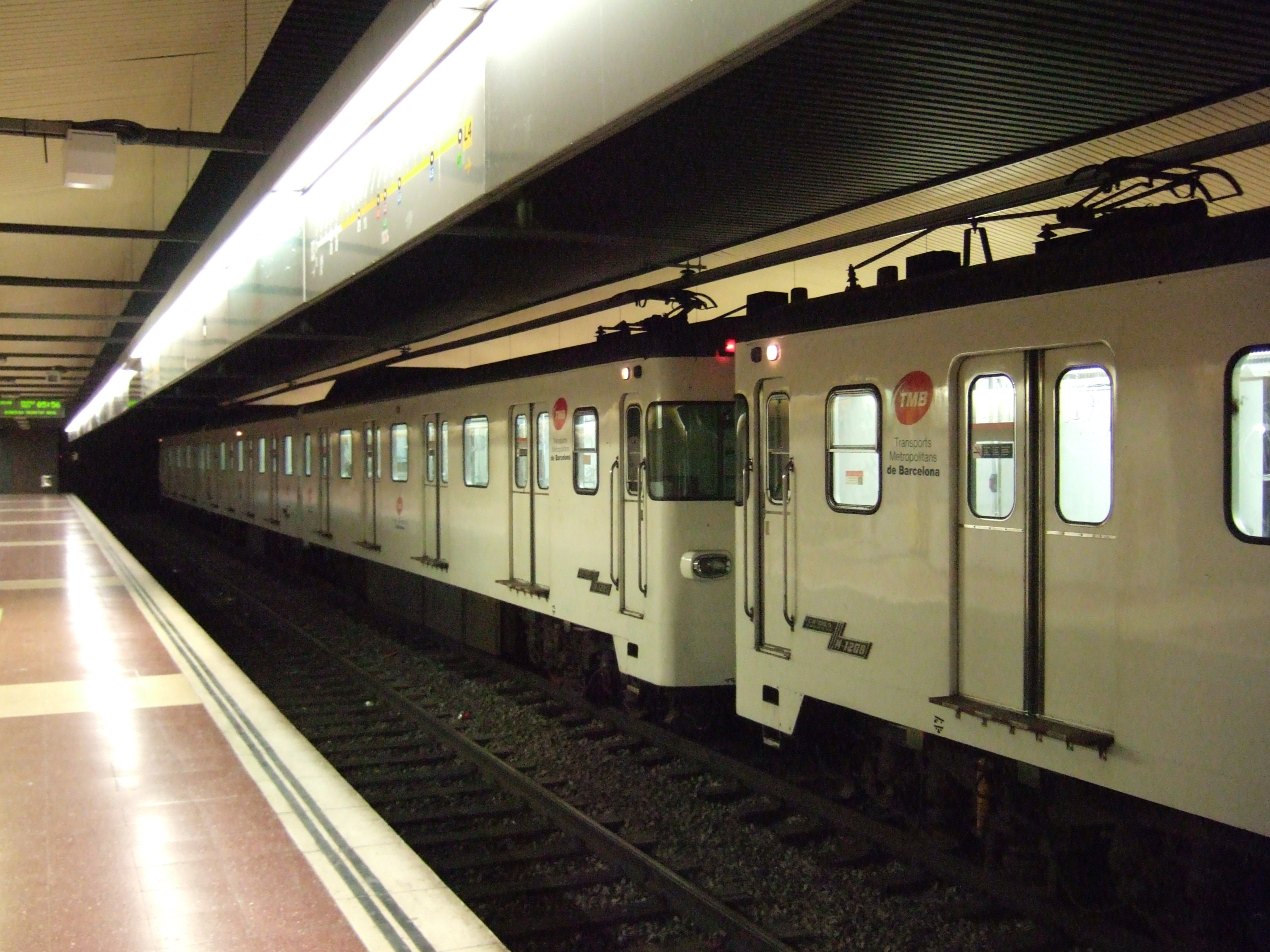 Train at Poblenou Station, Barcelona Metro